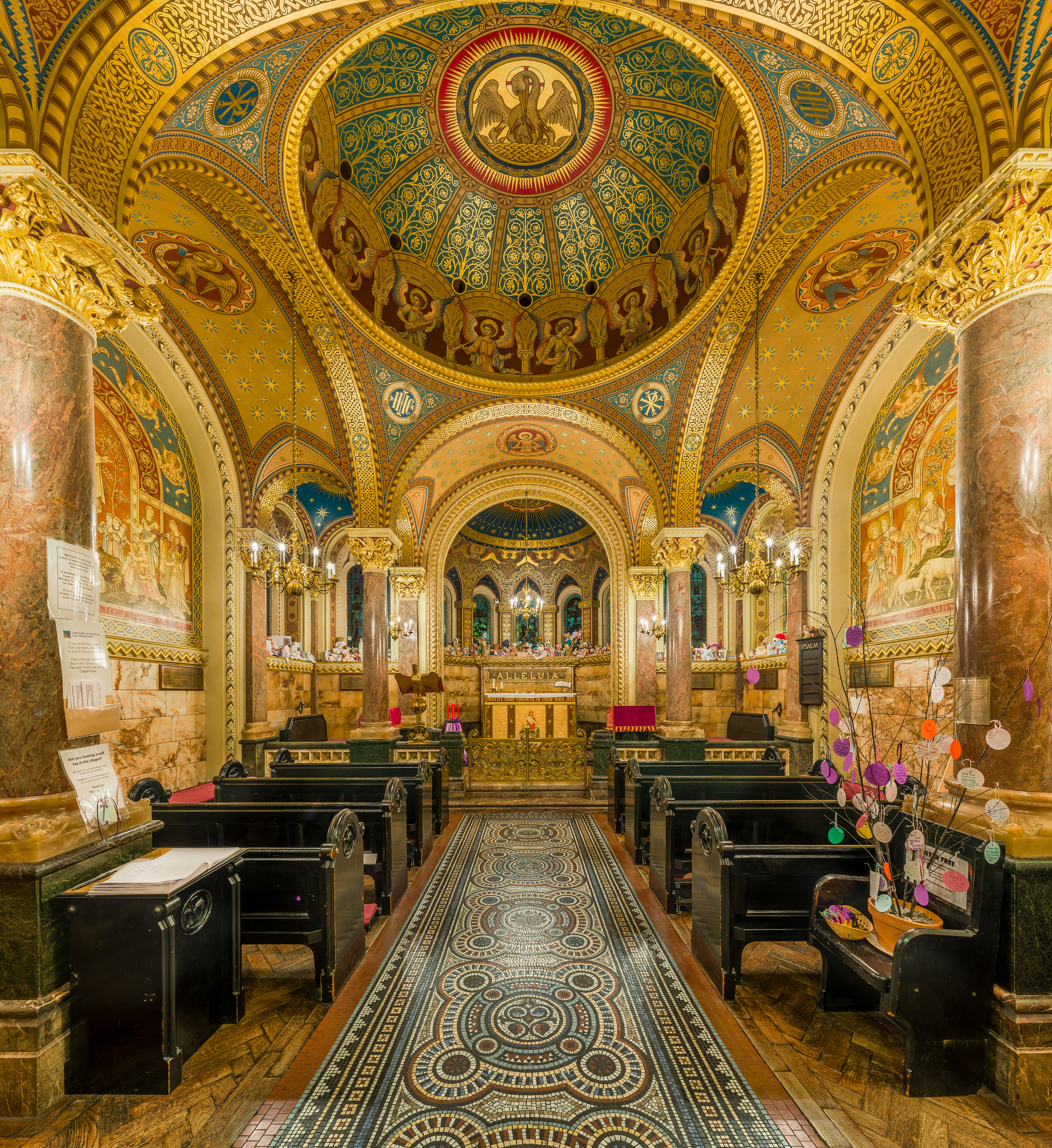 The interior of St Christopher's Chapel within Great Ormond St Childrens Hospital in London, England.